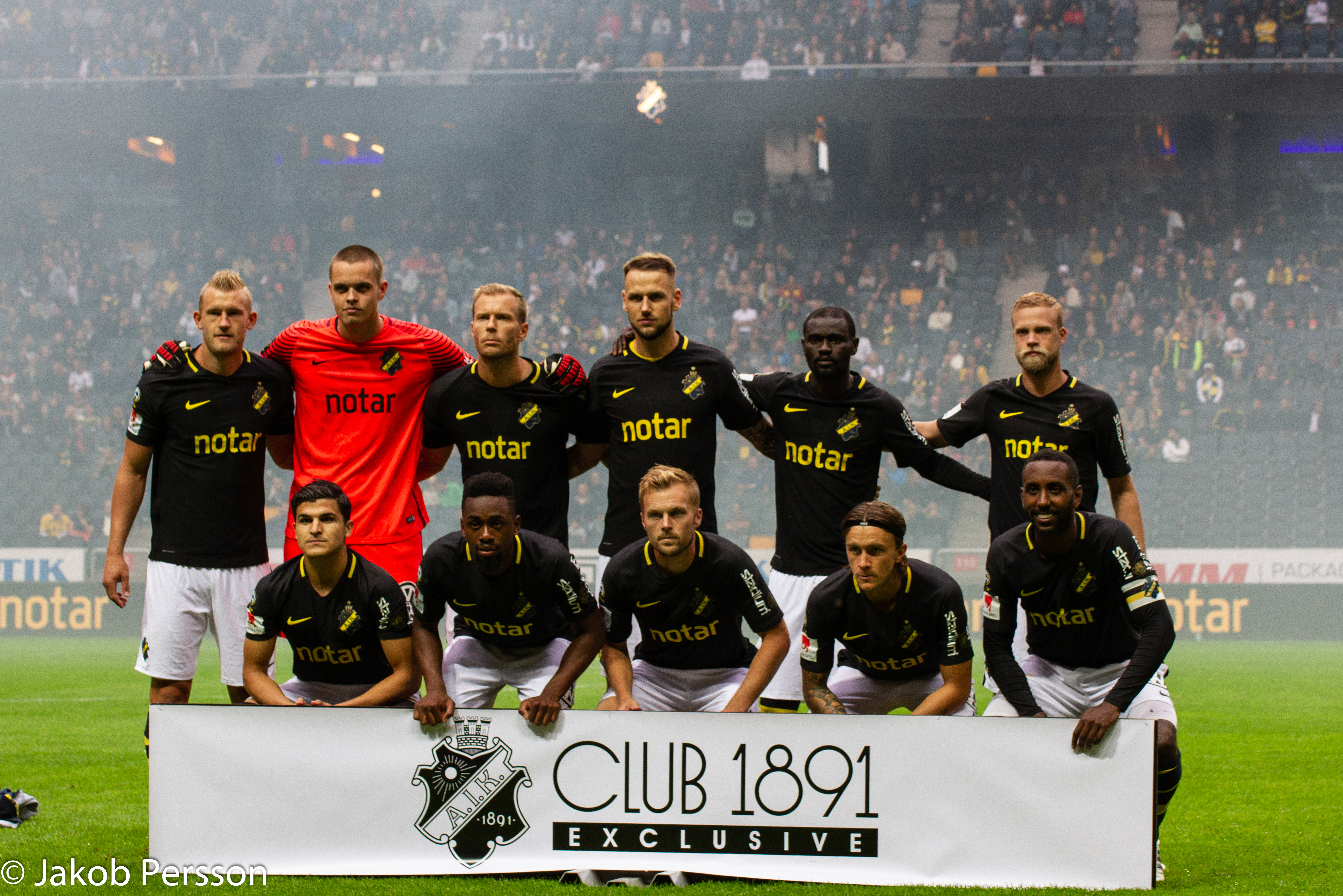 Starting eleven before AIK-Elfsborg